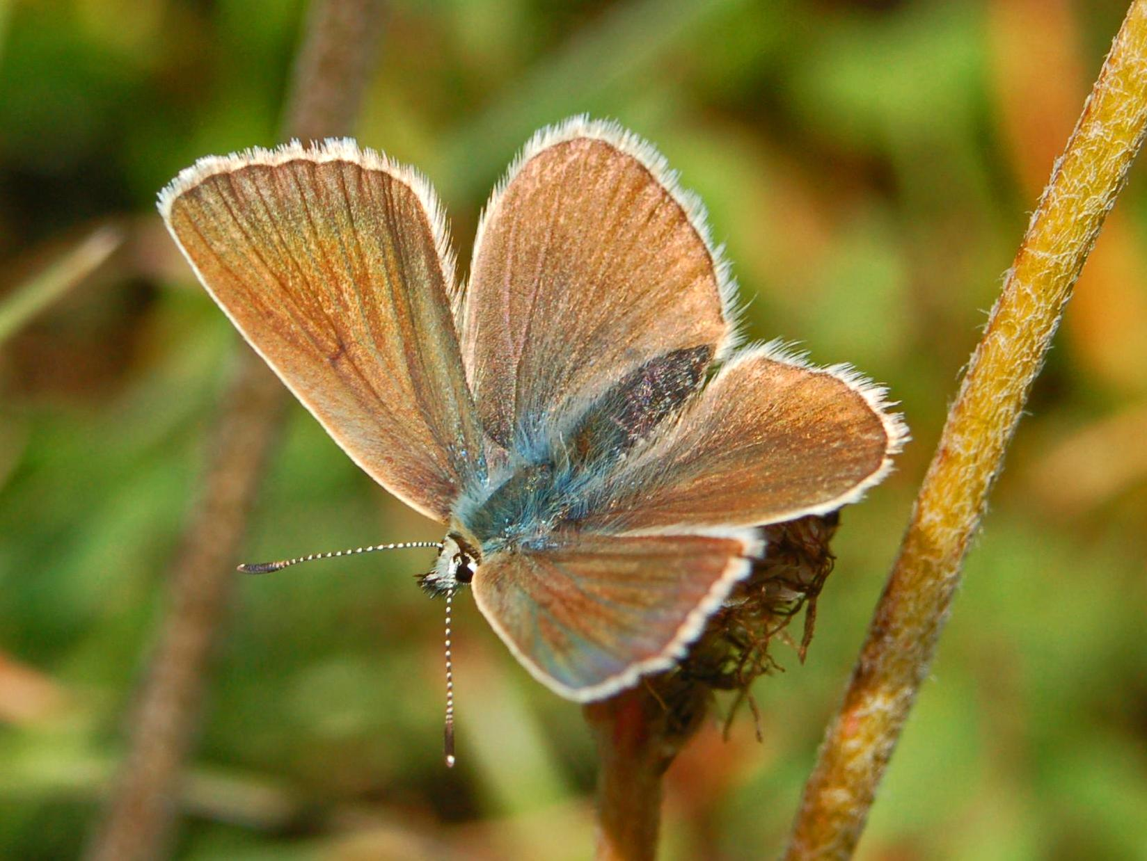 Polyommatus damon. Female, upperface. Val d'Aosta, Italy